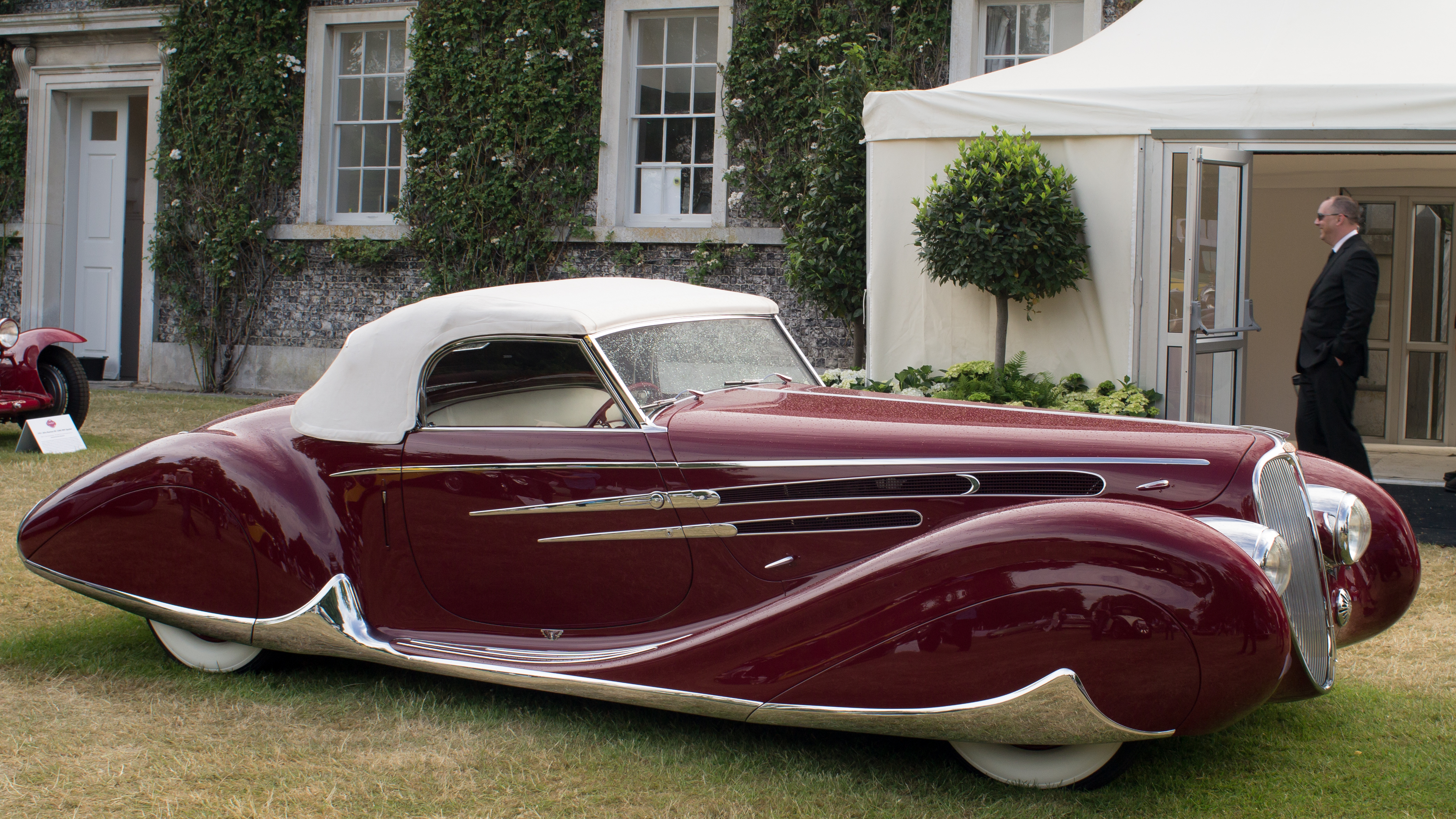 1939 Delahaye Type 165 Cabriolet at the Goodwood Festival of Speed 2015.